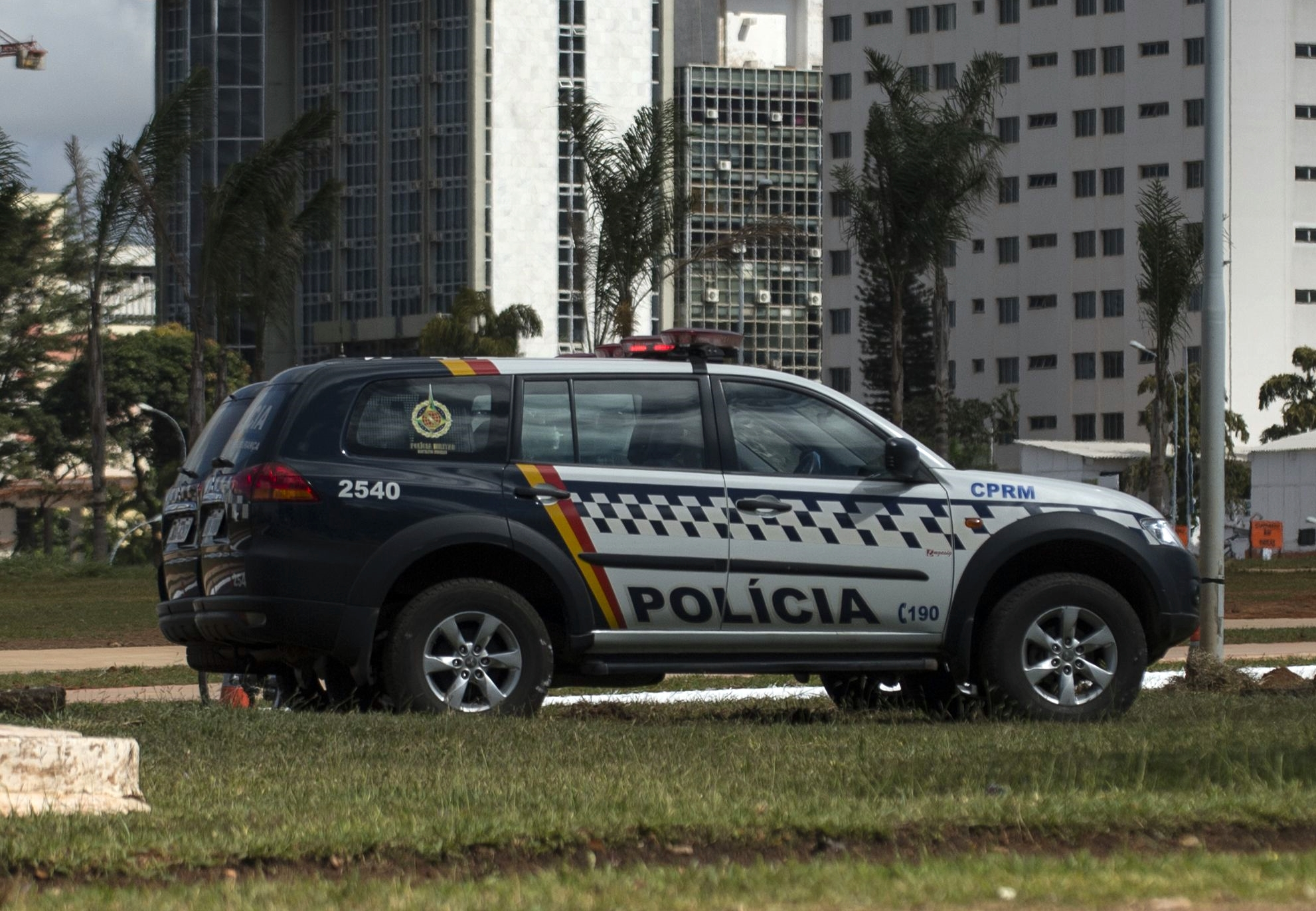 Protest against FIFA World Cup 2014 in Brasília (2014-06-15).